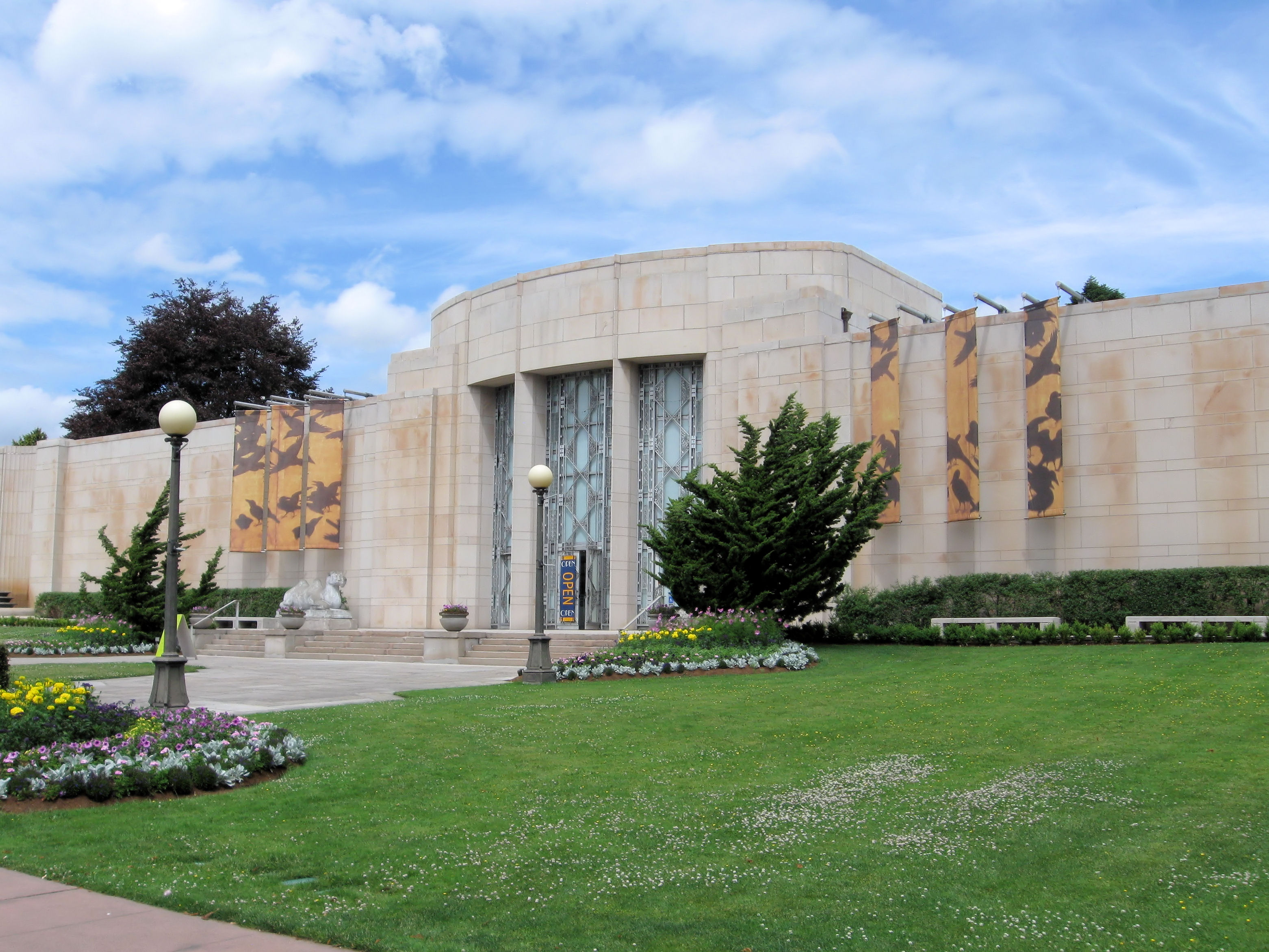 Seattle Asian Art Museum, Volunteer Park, Seattle, Washington. The museum building has city landmark status.